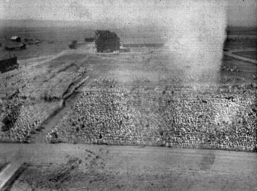 Huge group of Armenian orphans in Alexandropol yard.